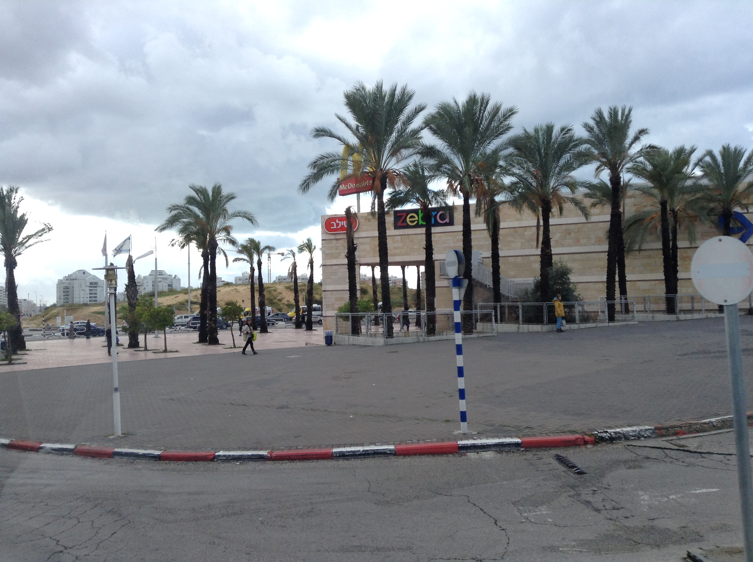 Ashdod central bus station